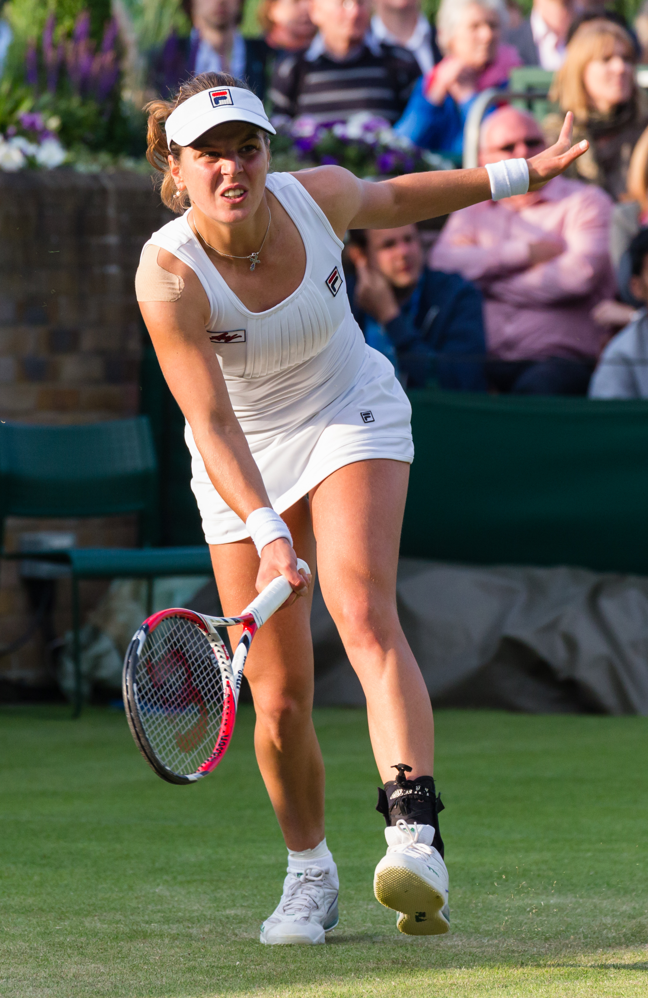 Anna Tatishvili in the first round of Wimbledon 2013 against Petra Martic.